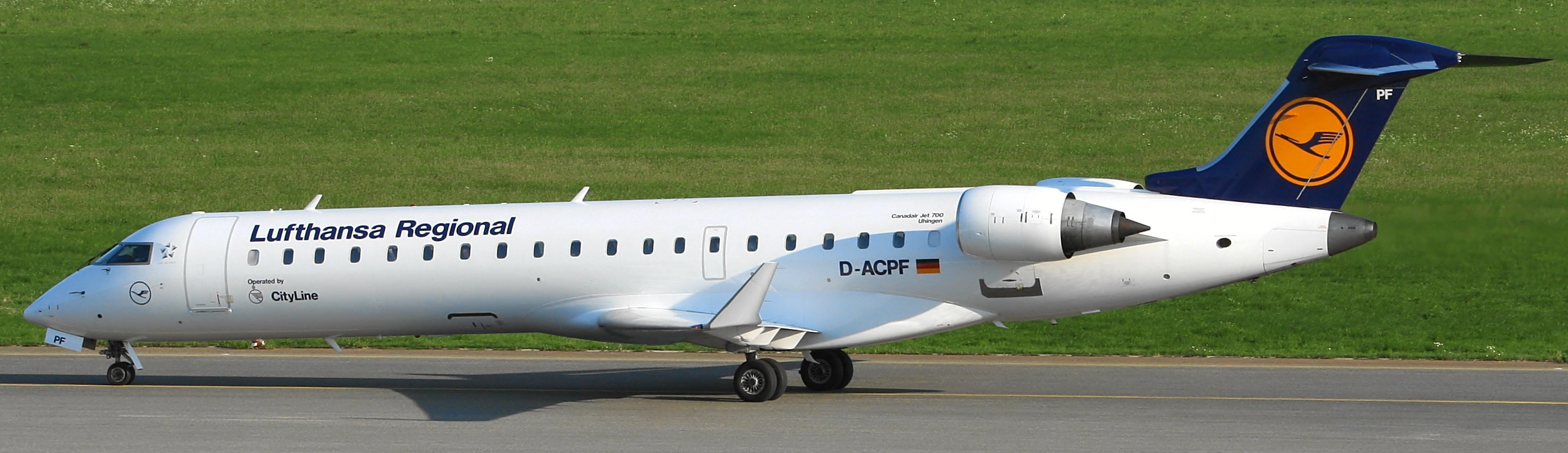 Canadair Regionaljet CRJ-700ER (D-ACPF) "Uhingen" of Lufthansa.